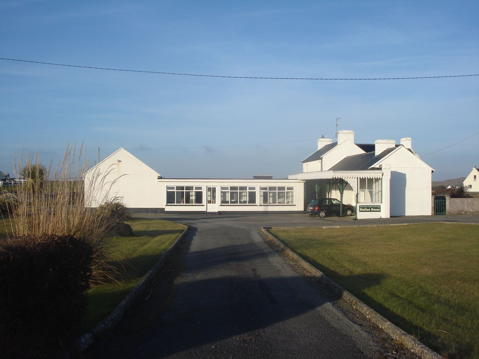 Former train station in Milltown Malbay, once operated by the West Clare Railway. Now a B&B.